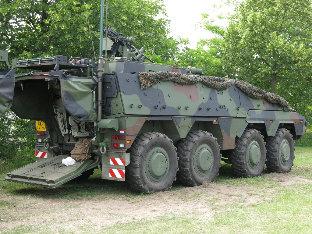 Boxer Commando Post of Royal Netherlands Army, German Forces day, Field Marshal Rommel barracks, Augustdorf 2017